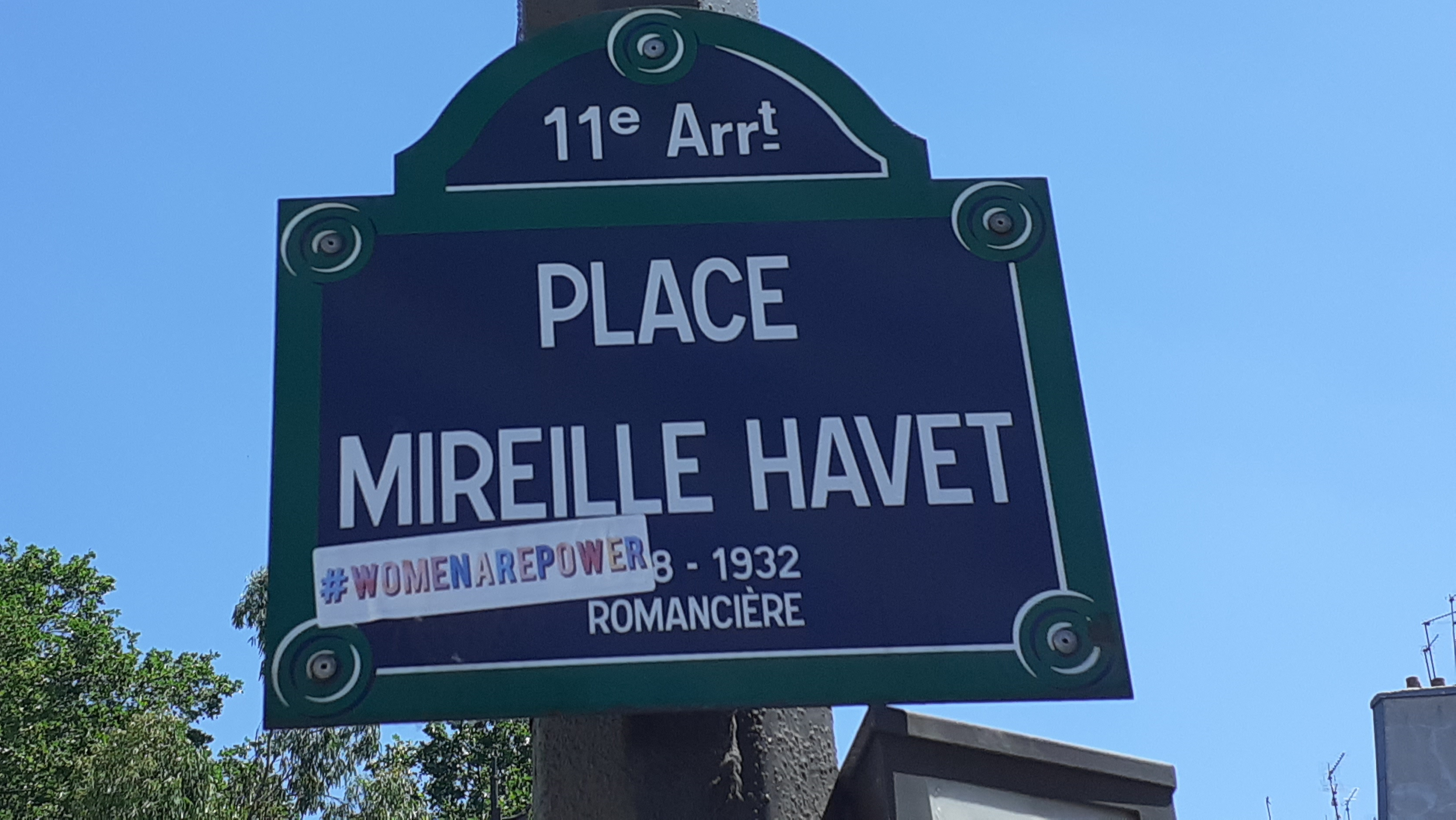 Street sign Mireille Havet square, Paris 11e